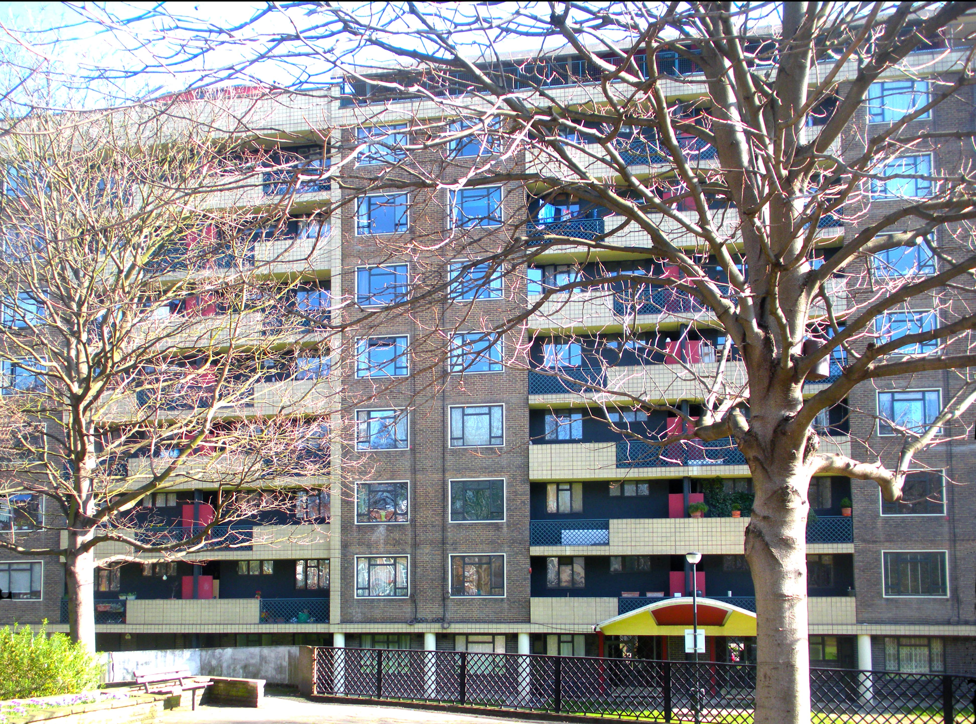 Wells House, one of three blocks that make up Lubetkin's Spa Green Estate, looks down onto Sadler's Wells Theatre and Rosebery Avenue, London EC1